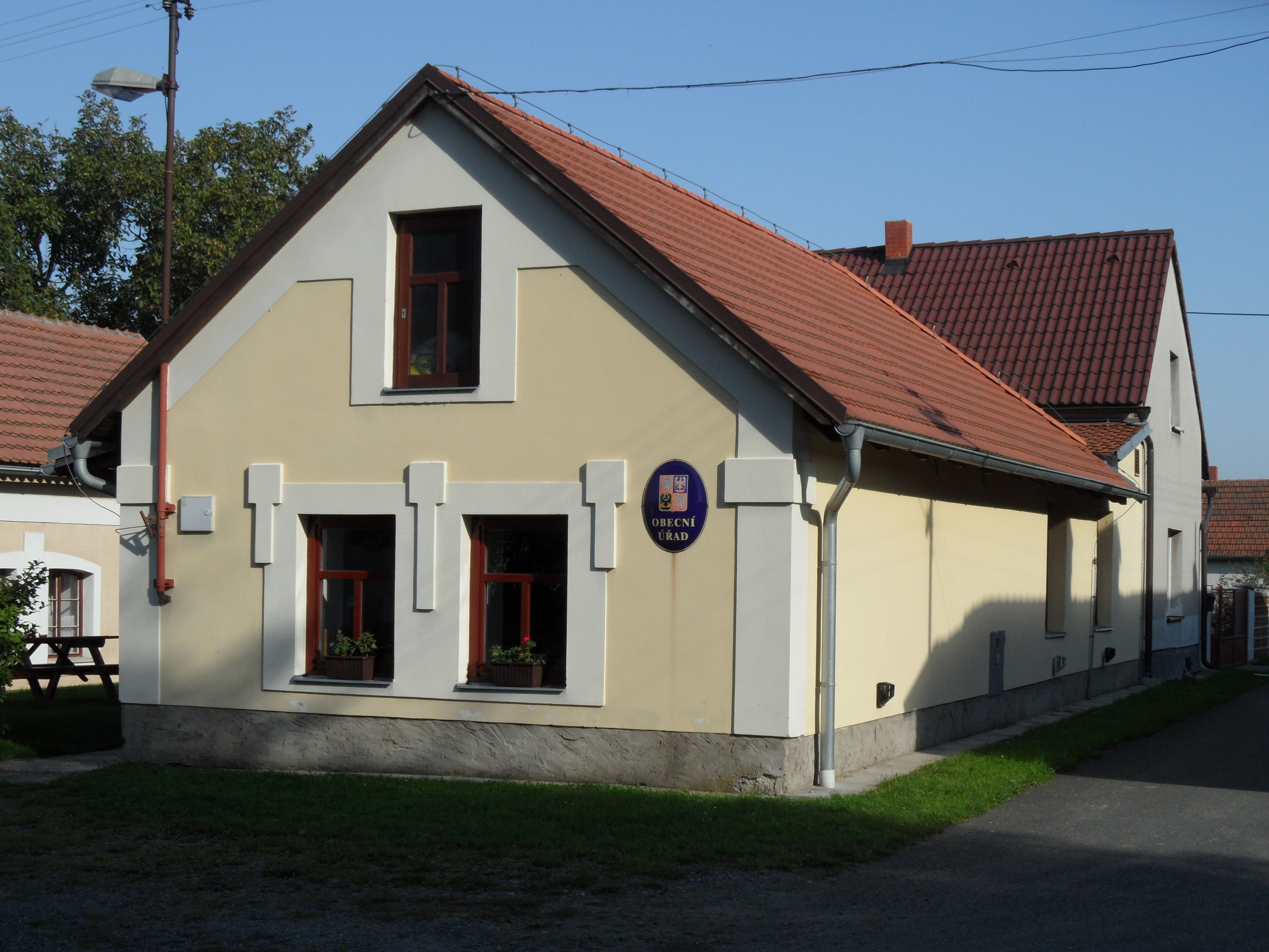 Adamov (okres Kutná Hora) A. Building of Municipal Office, Kutná Hora District, the Czech Republic.